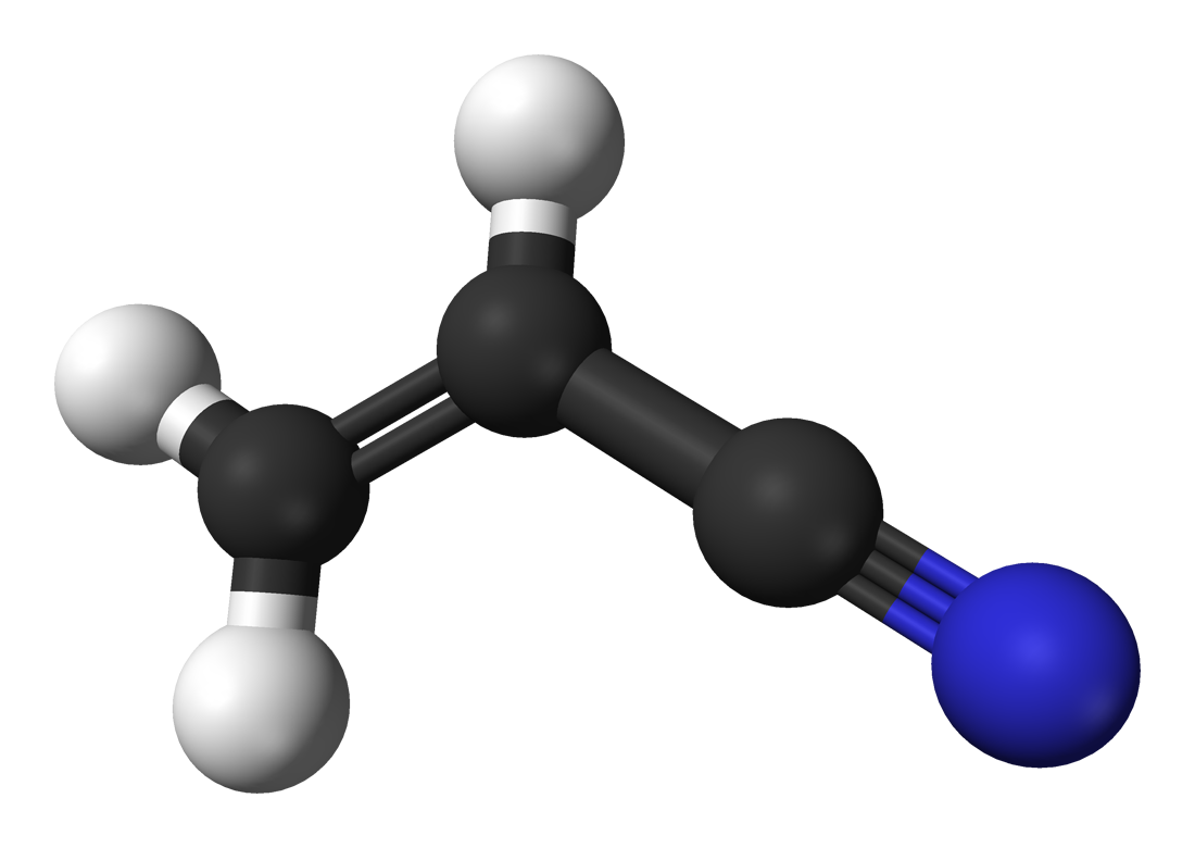 Ball-and-stick model of the acrylonitrile molecule